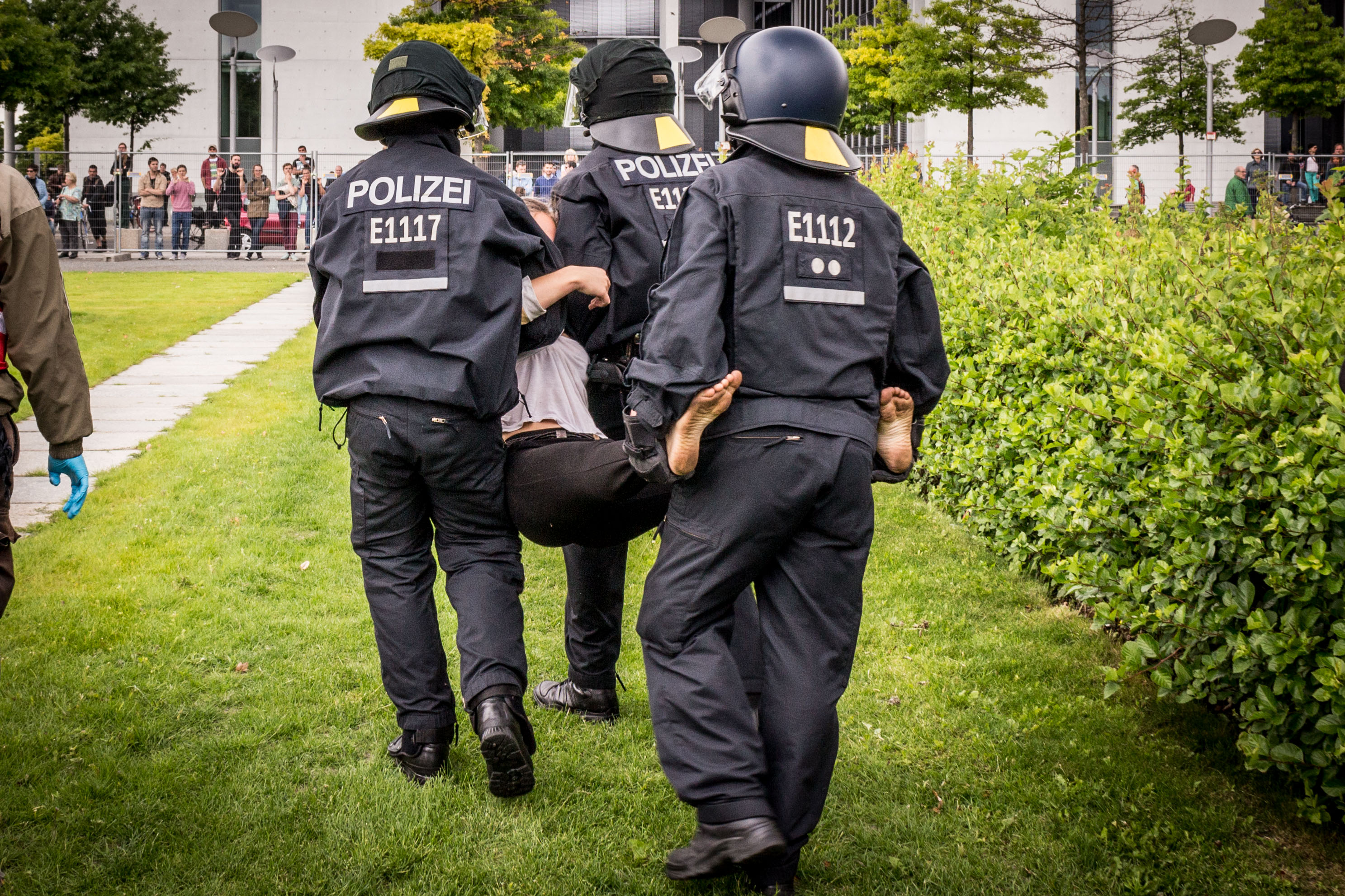 Police arresting one protestant at "Marsch der Entschlossenen" demonstration in Berlin, Germany